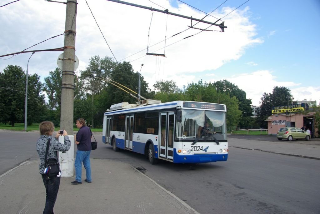 Moscow trolleybus MTRZ-5279 #2024. Platforma Novogireevo